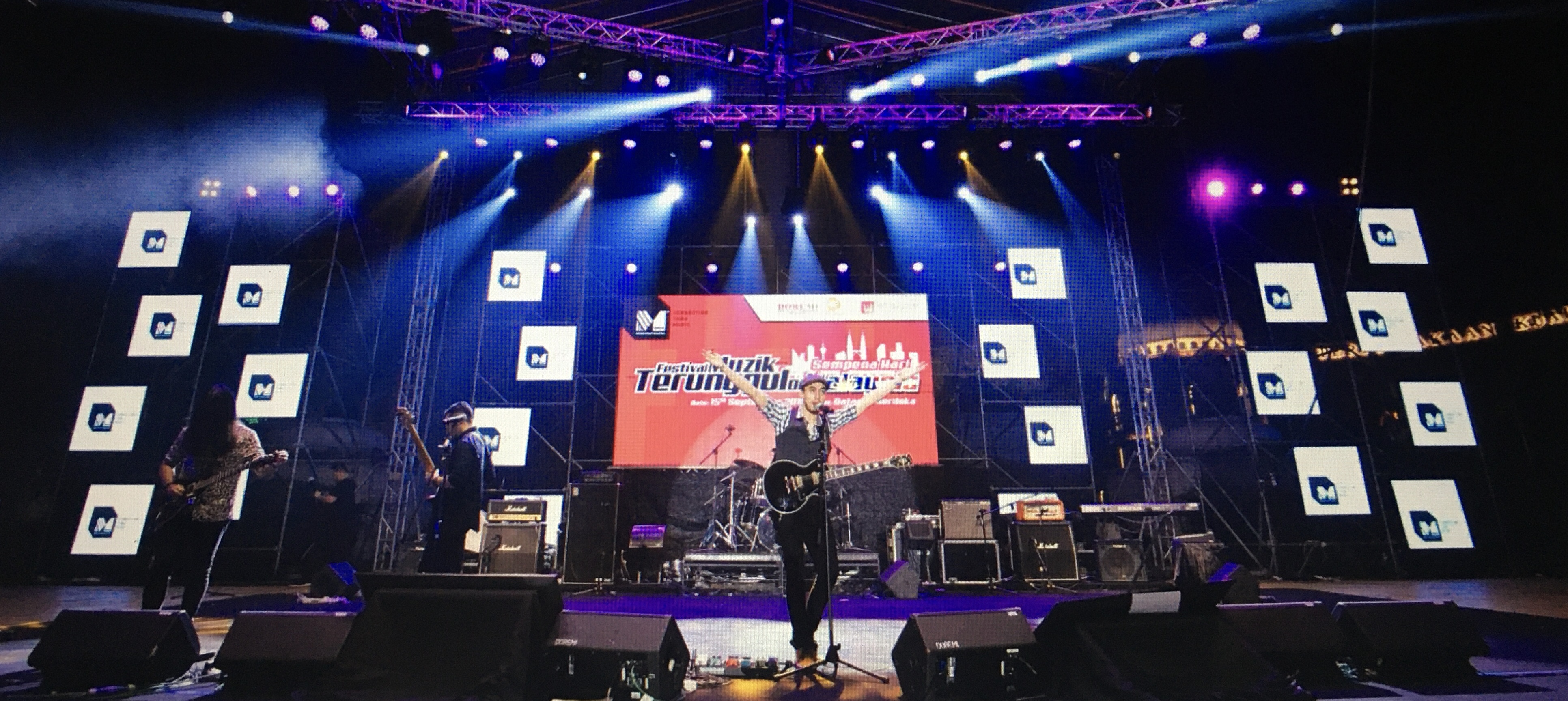 Shadow Puppet Theatre during Minggu Muzik Malaysia